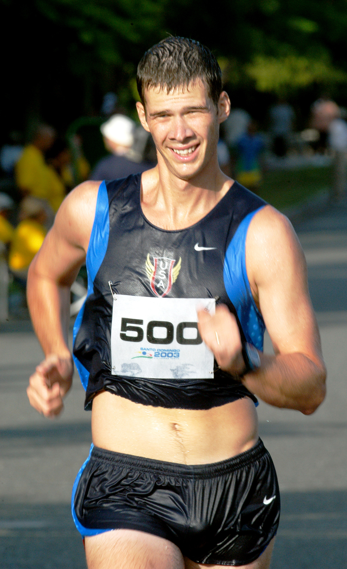 SSG John Nunn, a member of the U.S. Army World Class Athlete Program from Evansville, Ind., finishes eighth in the 20-kilometer race walk at Parque Mirador del Sur in the 2003 Pan American Games at Santo Domingo, Dominican Republic. Nunn finished in 1 hour, 35 minutes and 34 seconds.